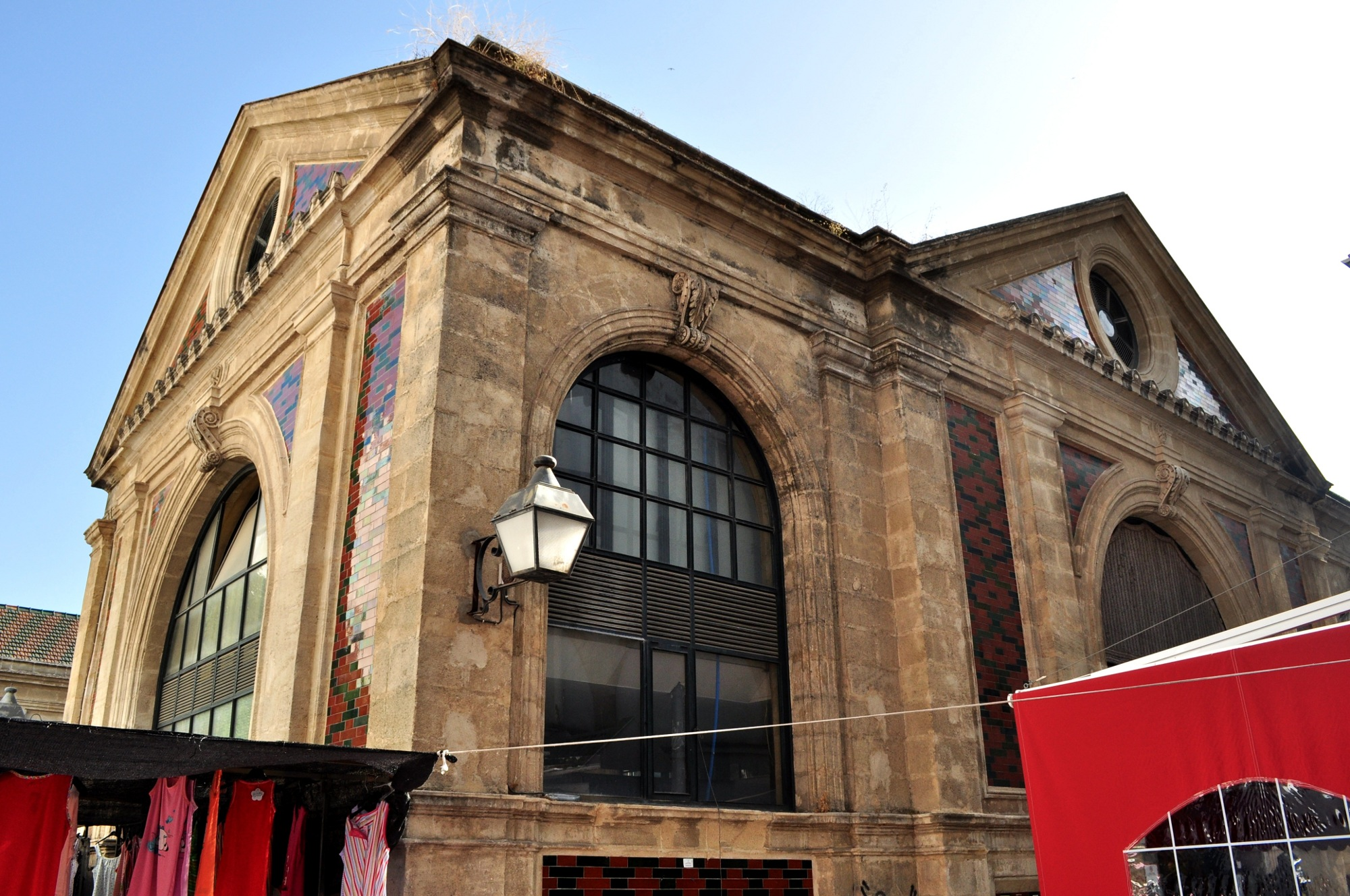 Central Market, Jerez de la Frontera